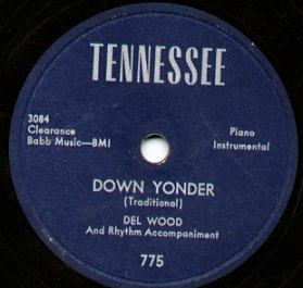 Tennessee Records 78 gramophone record label from 1950